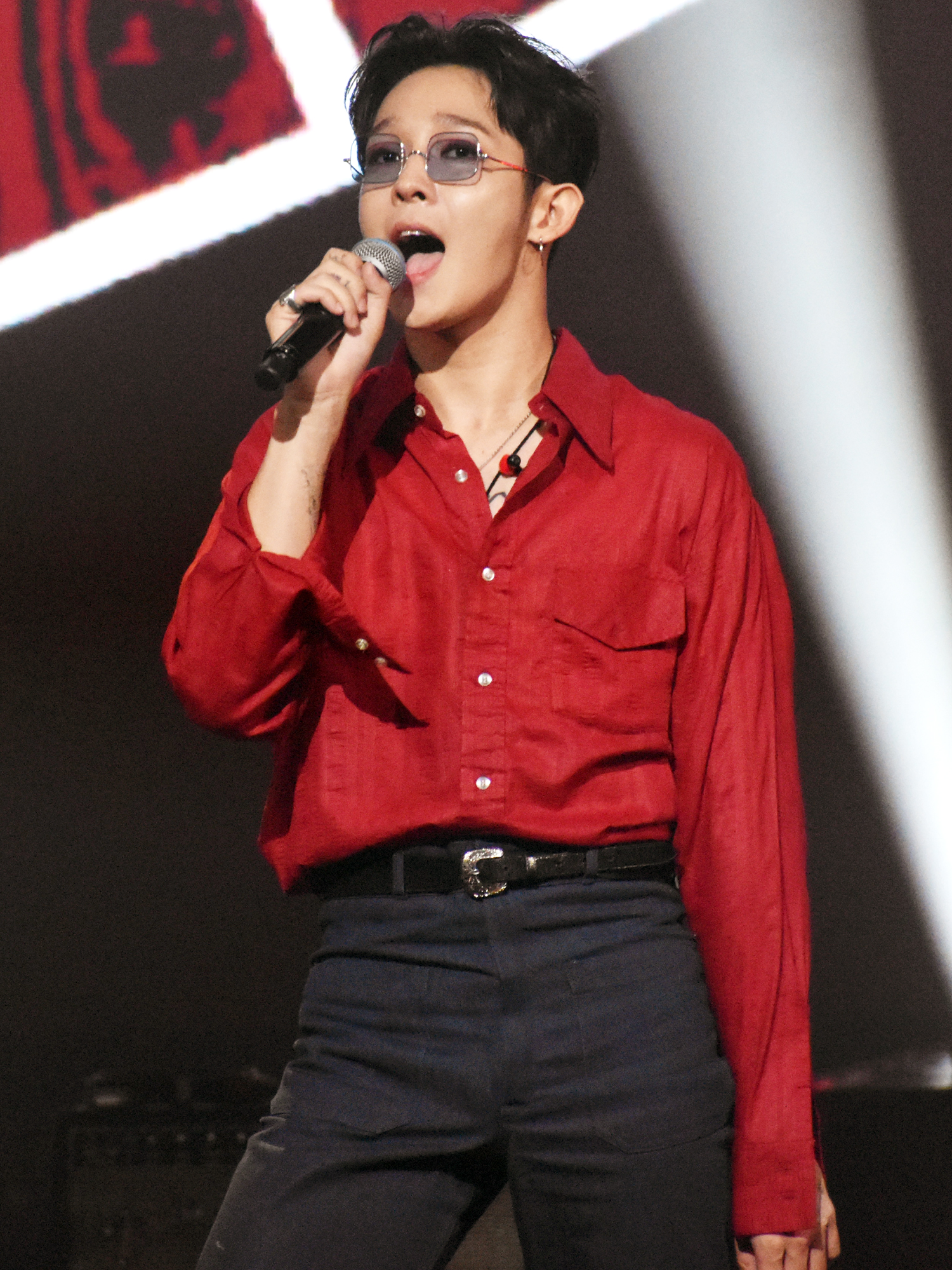 South Club's Nam Tae-hyun at the 2018 Indiestance Final Concert on August 9, 2018.